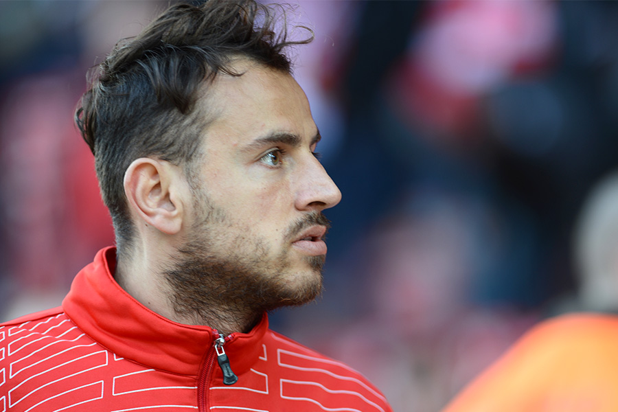 Bajram Nebihi with Union Berlin in March 2015